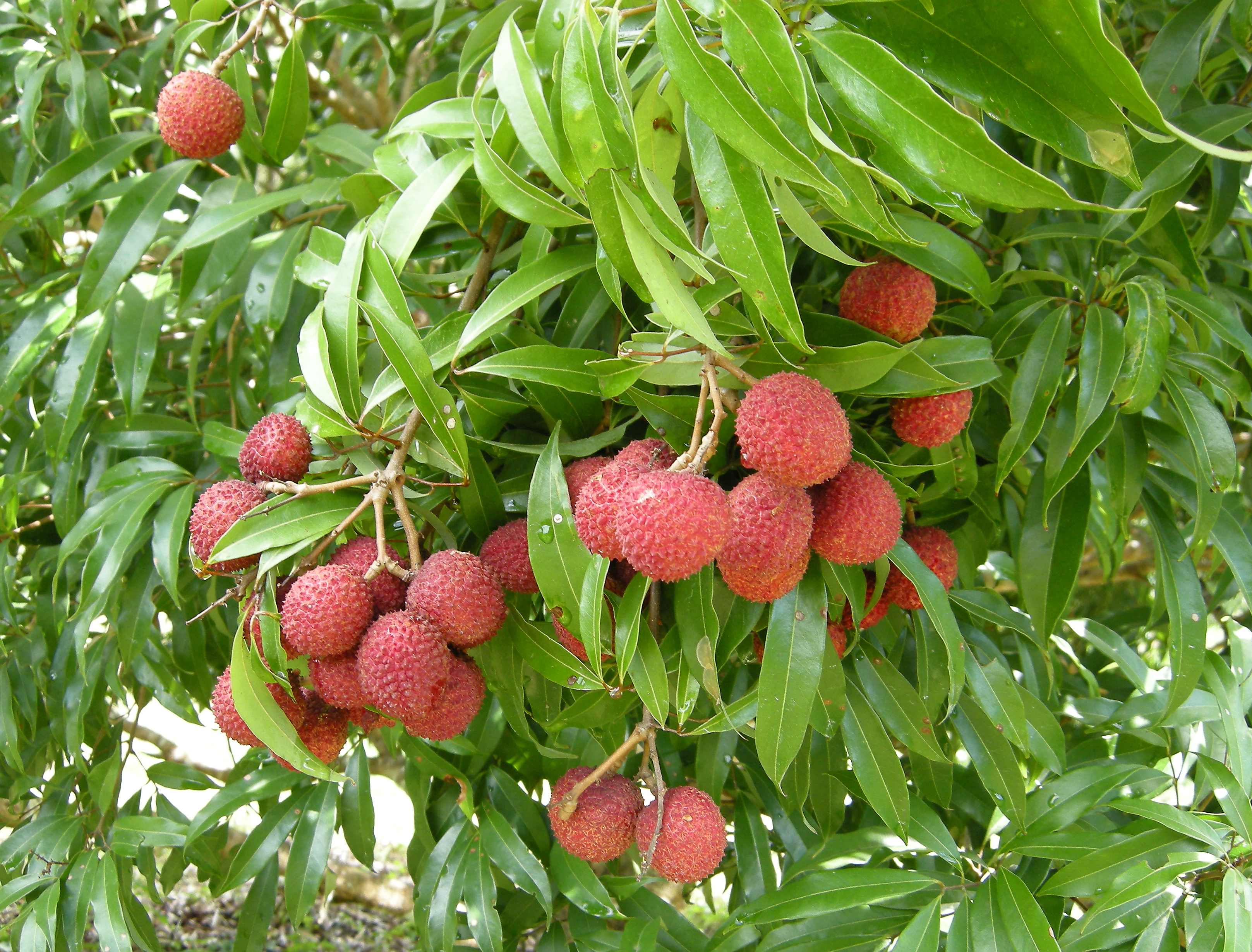 Nephelium litchi